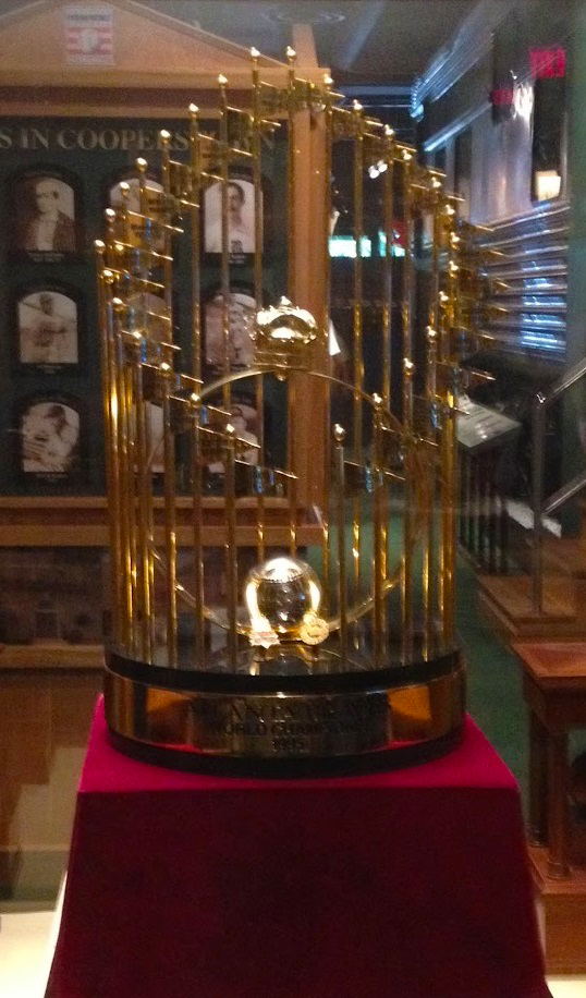 A photo of the 1995 World Series trophy I took in the Braves Museum